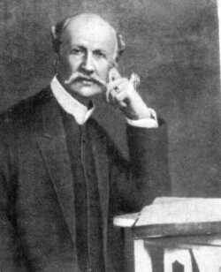 Count Modest Modestowitsch Korff